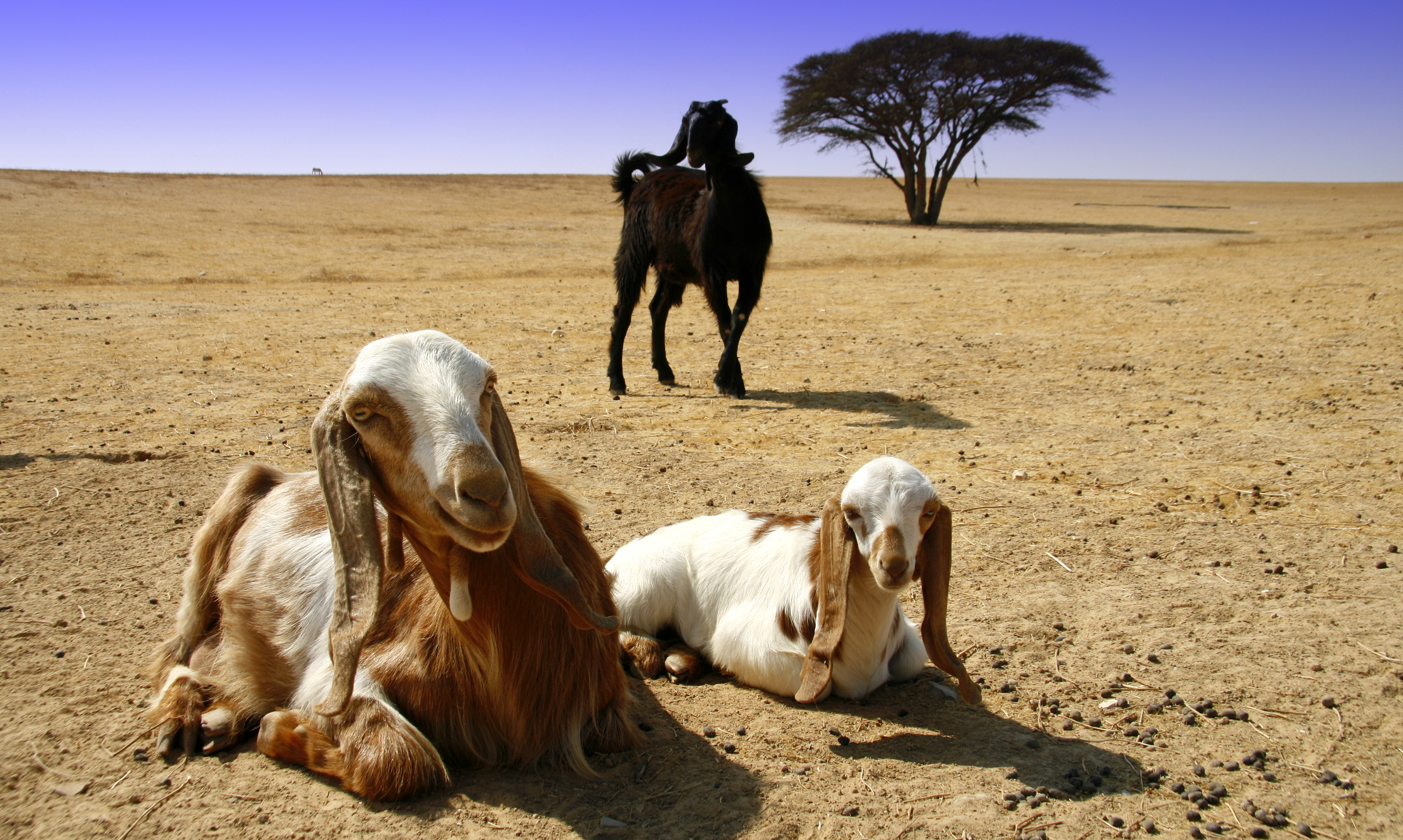 Goats in Southern Israel.